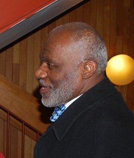 Justice Alan Page